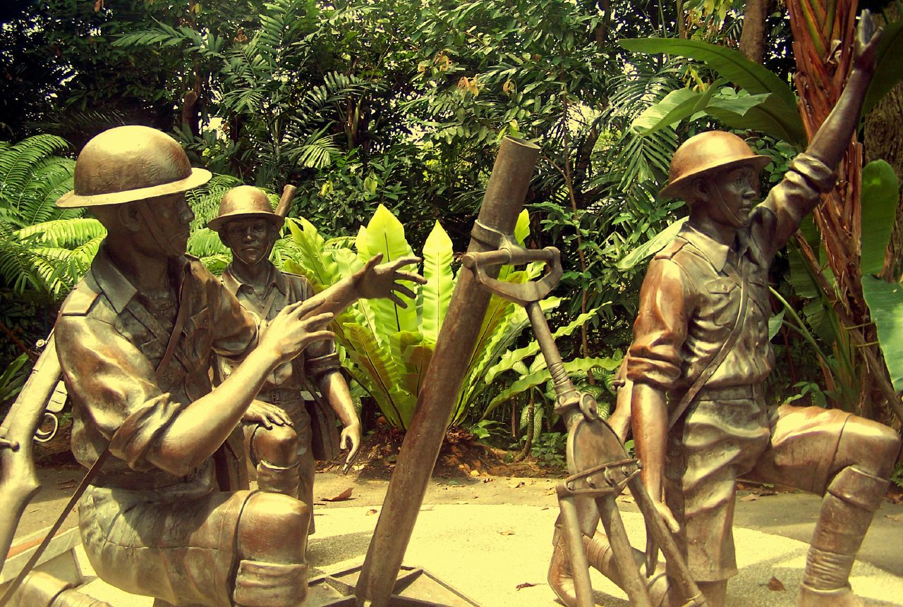 In February 1942, after the lightning march of the Imperial Japanese Army across the Malay Peninsula in just 55 days, the regiment at Bukit Chandu put up brave resistance to the invading army. They fought to the last man. In revenge against their stubbornness to fight and not surrender, the Japanese soldiers bayonetted more than 200 patients at the Alexandra Hospital nearby.